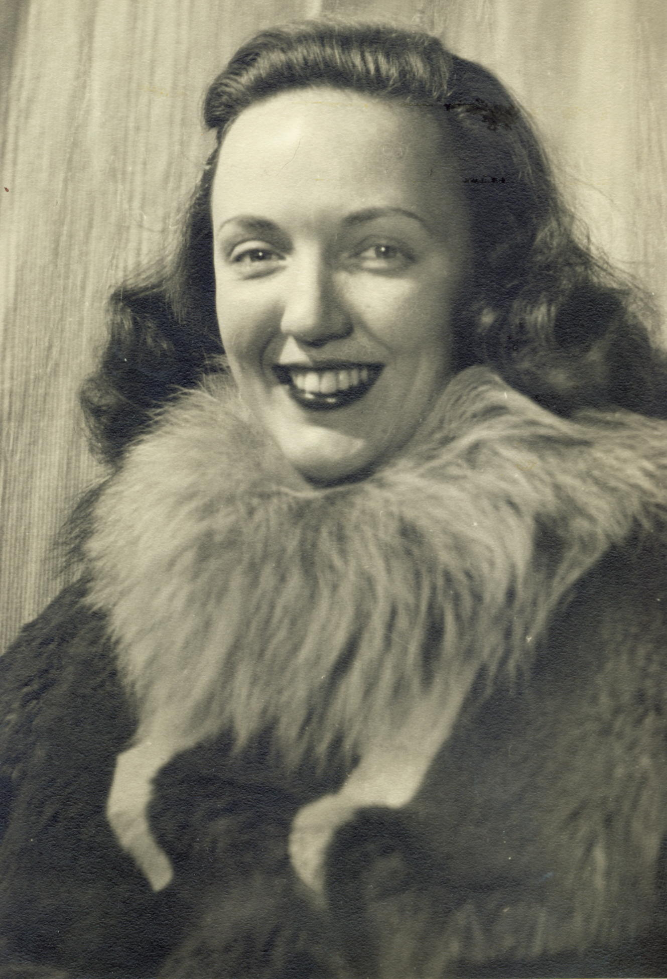 Portrait of Edith Ronne for the Ronne Antarctic Research Expedition. Jackie Ronne at Stonington Island in 1947.